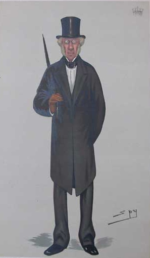 Caricature of The Earl of Selkirk. Caption read "Created in 1646".